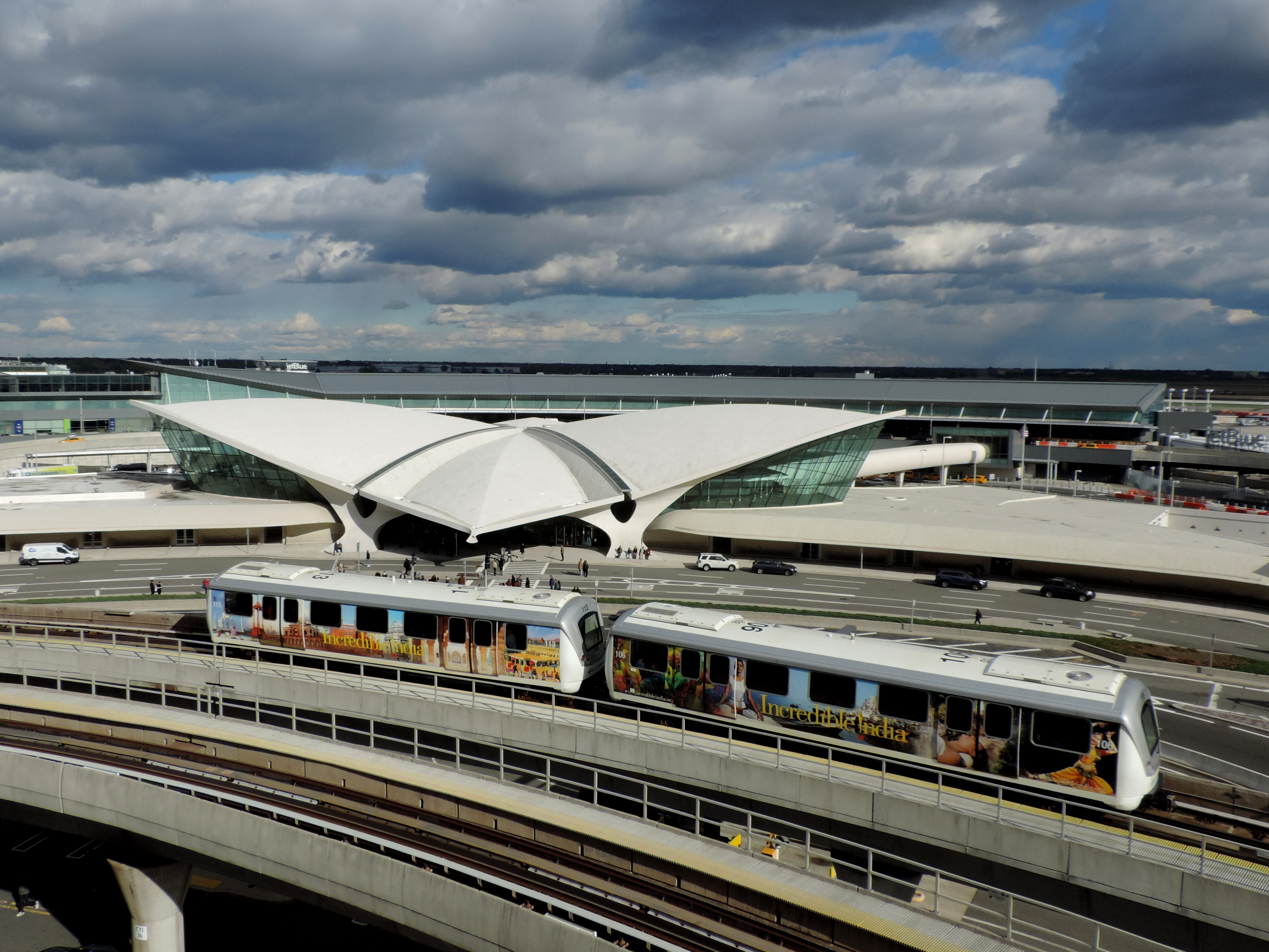 Site: TWA Flight Center